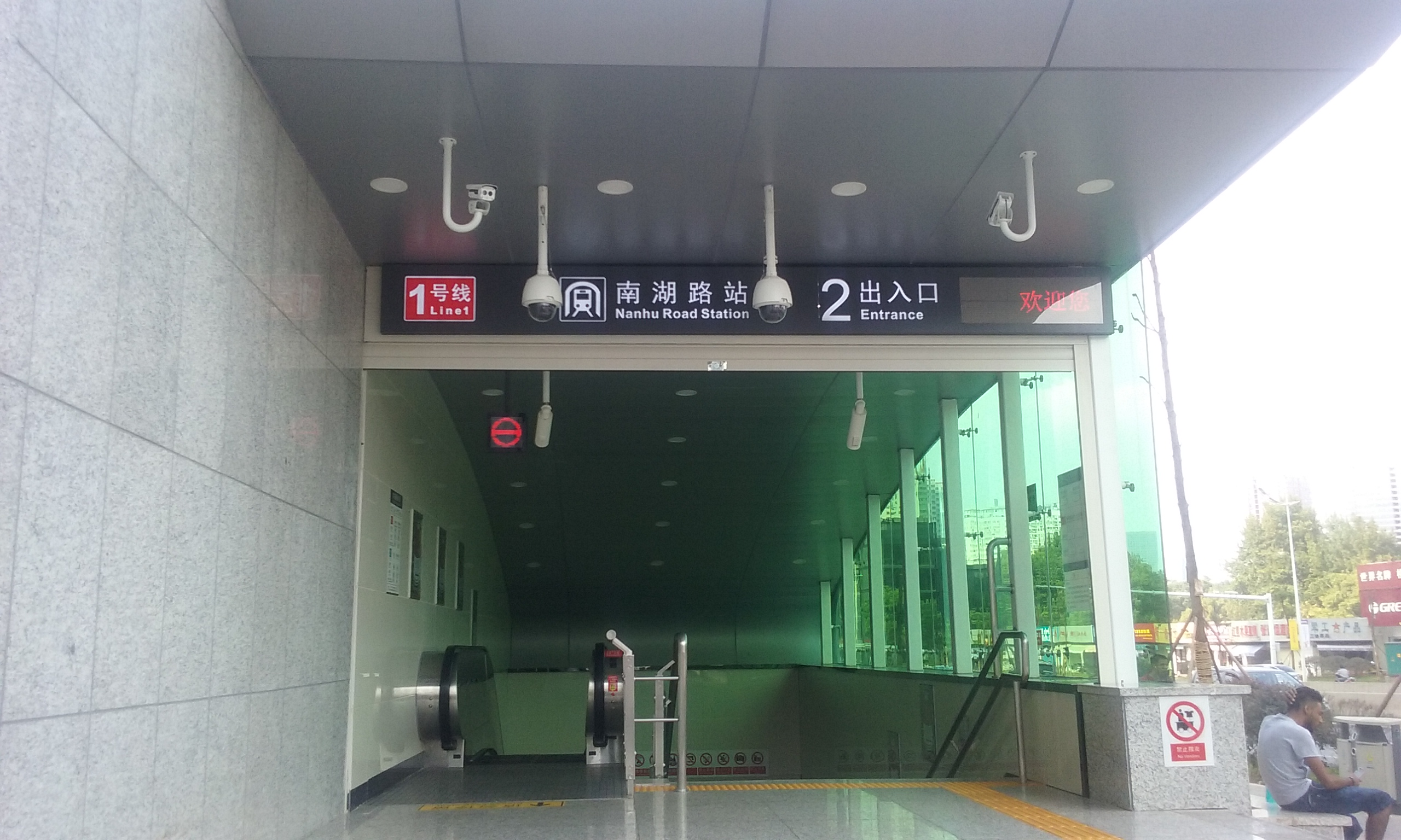 Entrance No.2 of Nanhu Road Station